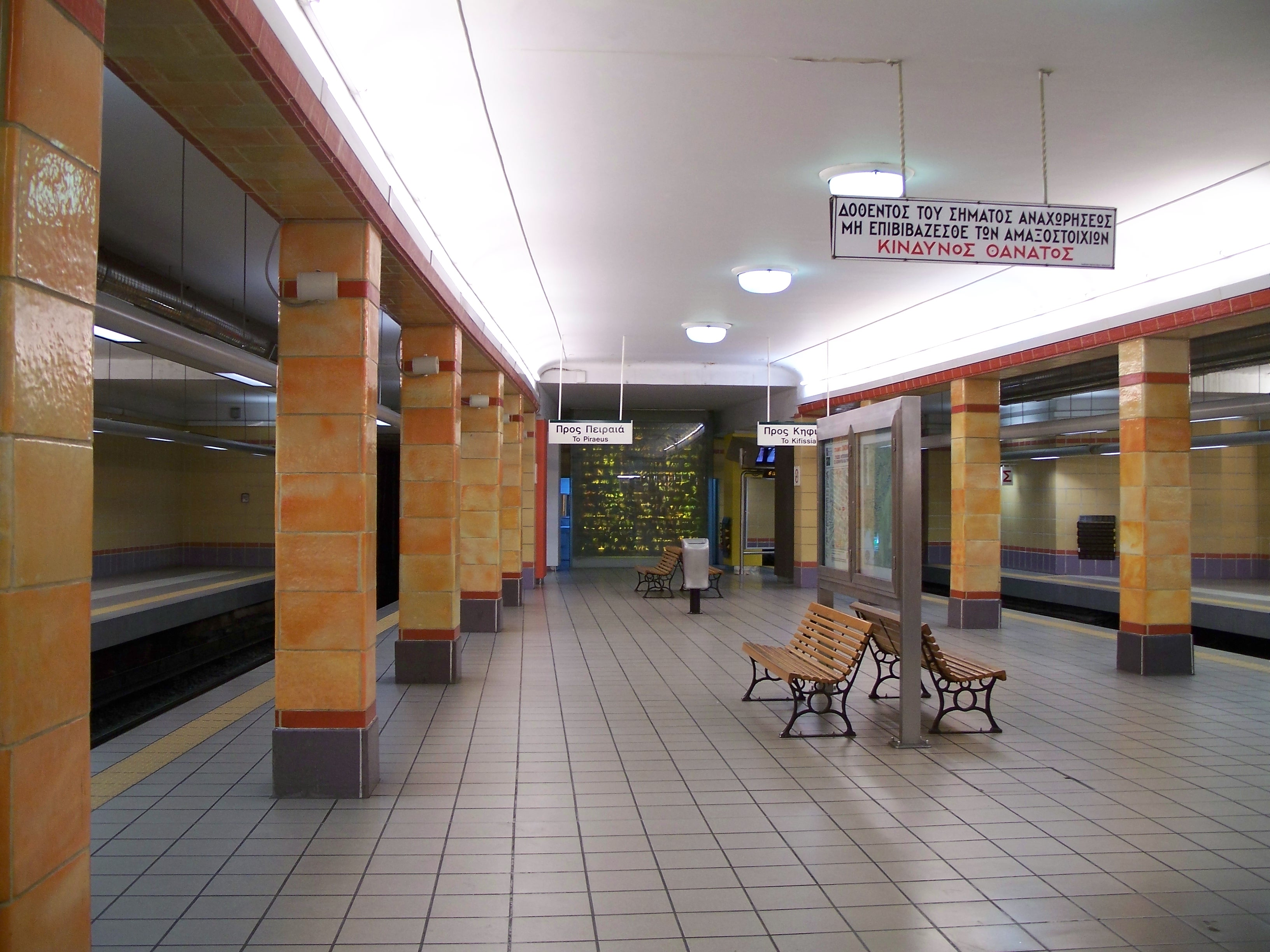 Omonoia station of Athens Metro system.